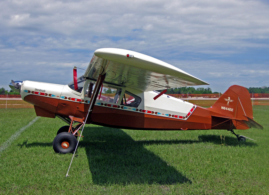 Barrows Bearhawk N844EE built in 2009 by Avipro. At the 2011 Sun and Fun show at Lakeland Florida.